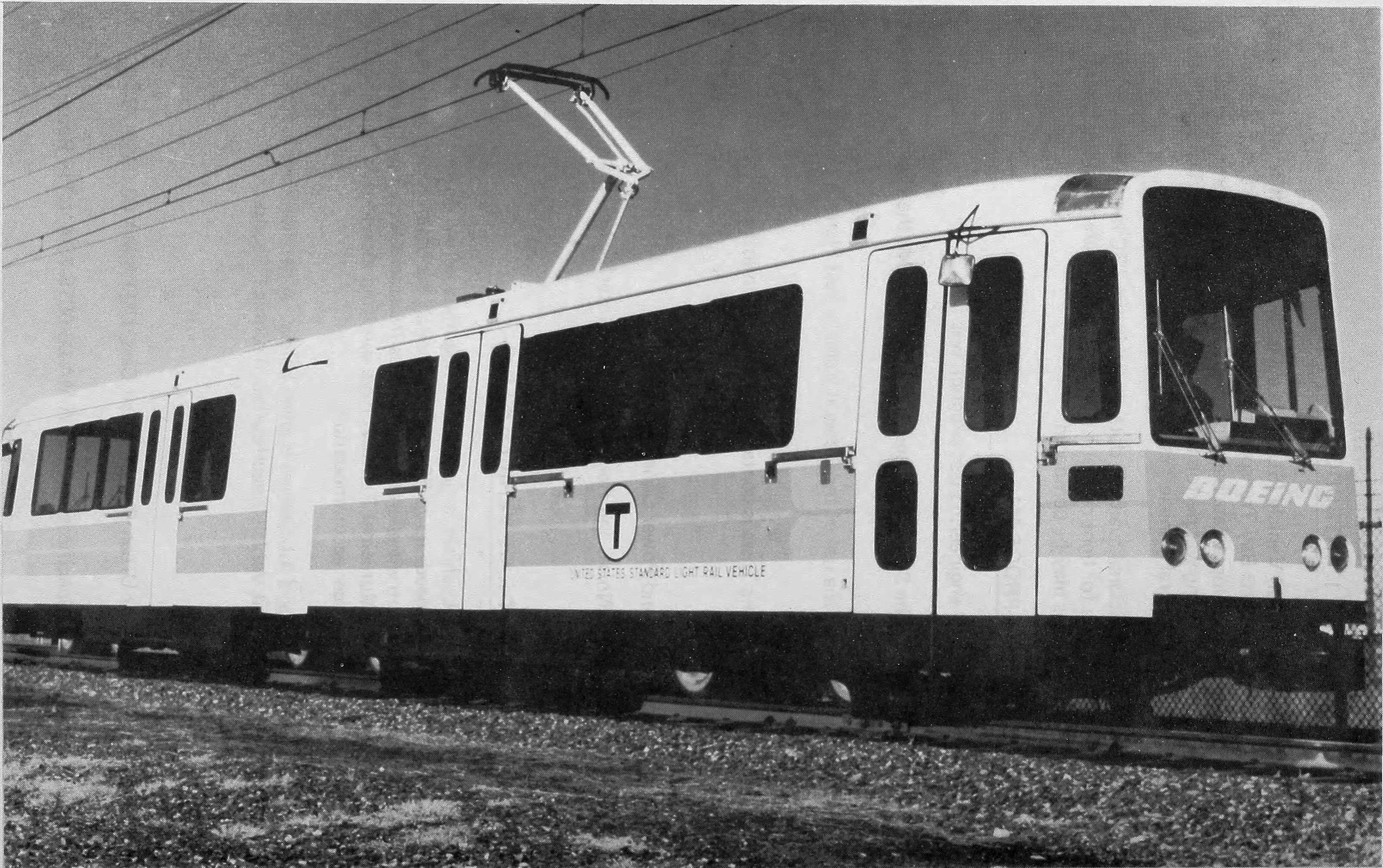 Original caption: "Figure 1-1: U.S. Standard Light Rail Vehicle"